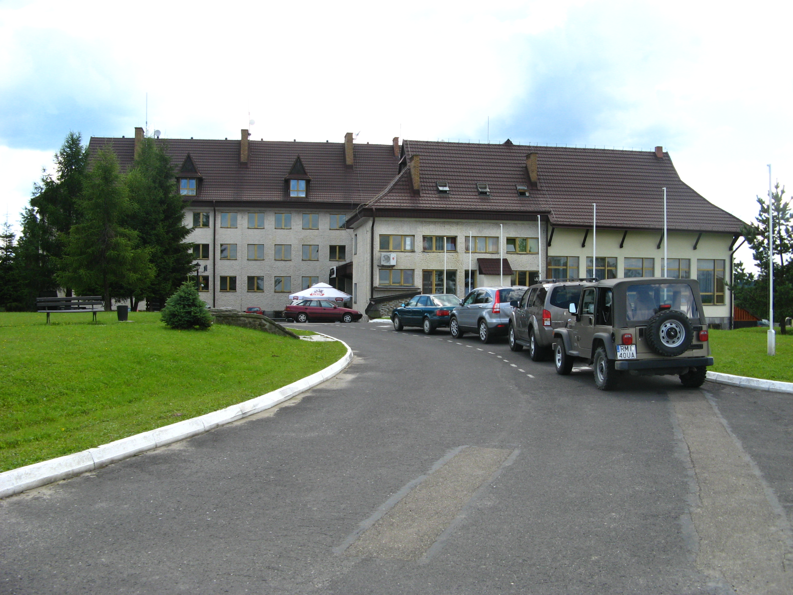 Building in Arłamów, Poland